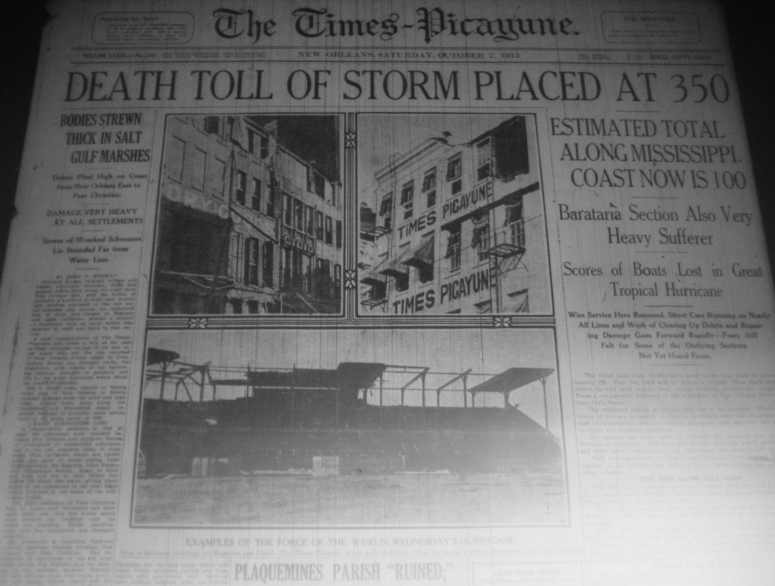 Front page of the Times-Picayune, New Orleans, regarding the great Louisiana hurricane of 1915